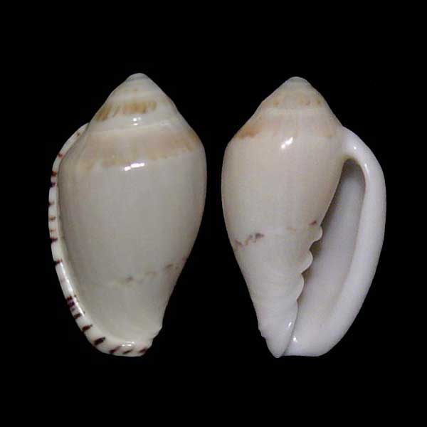 Species: Marginella peelae Bozzetti, 1993 form: beltmani Hart, 1993 Specimen: Luis Ferreira collection data: scuba 15m False Bay, South Africa L 26,8mm